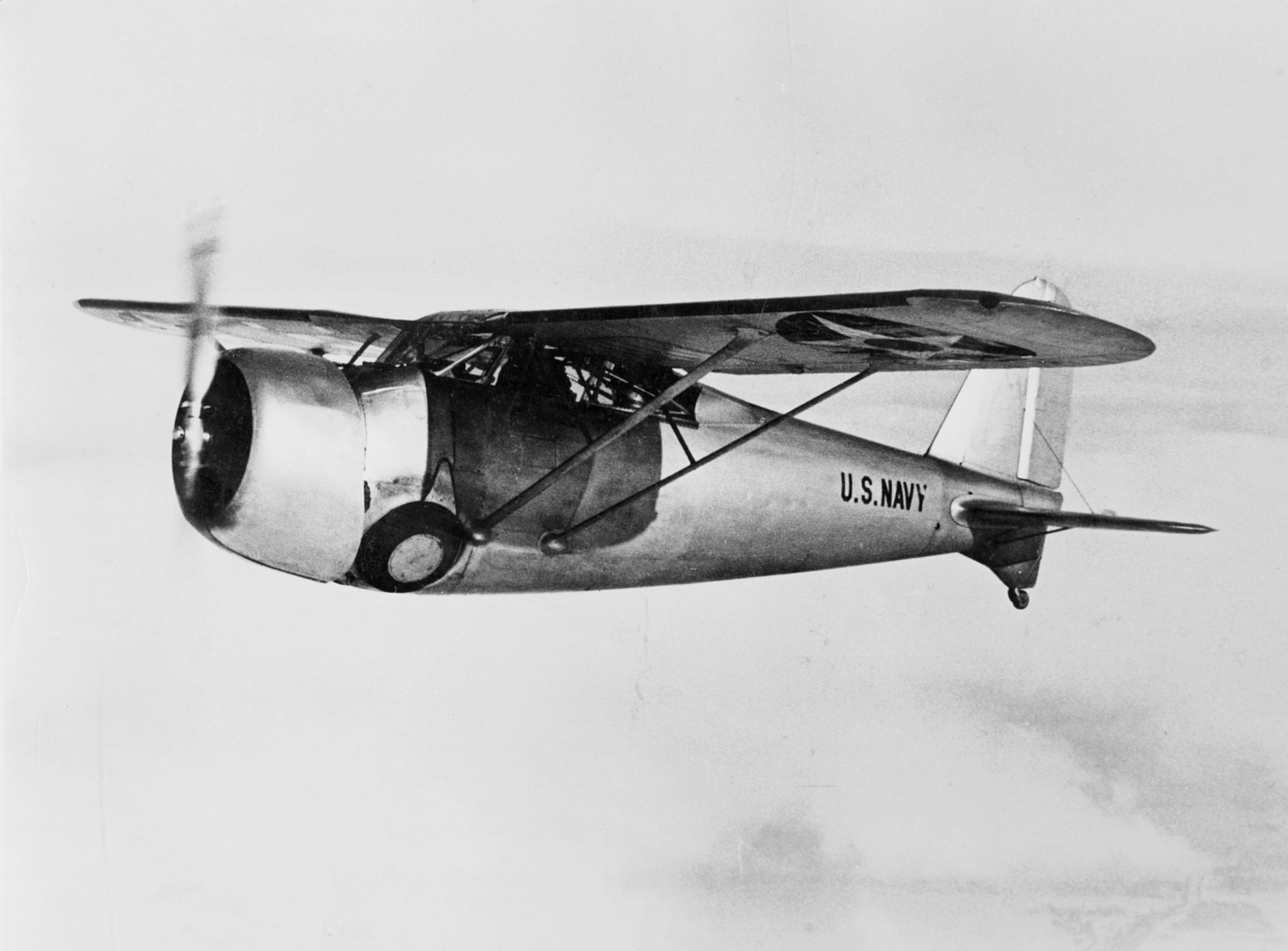 The U.S. Navy Curtiss XF13C-1 (BuNo 9343) in flight. Ordered on 23 November 1932, it made its first flight on 7 January 1934.